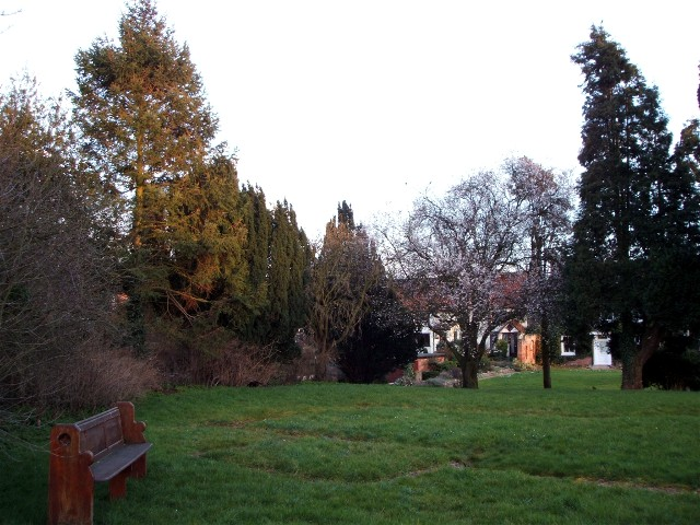 The site of St. Barnabas' Church, Thornton le Moor St. Barnabas was built in 1868. In August 1986 part of the East wall collapsed and the church was demolished in April 1987. The churchyard remains as consecrated ground and is still used as the village burial ground. The scar on the ground left by the church walls can be clearly seen.